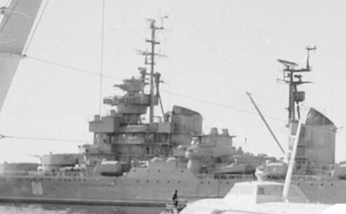 Крейсер № 016 во Владивостоке, 1980 год